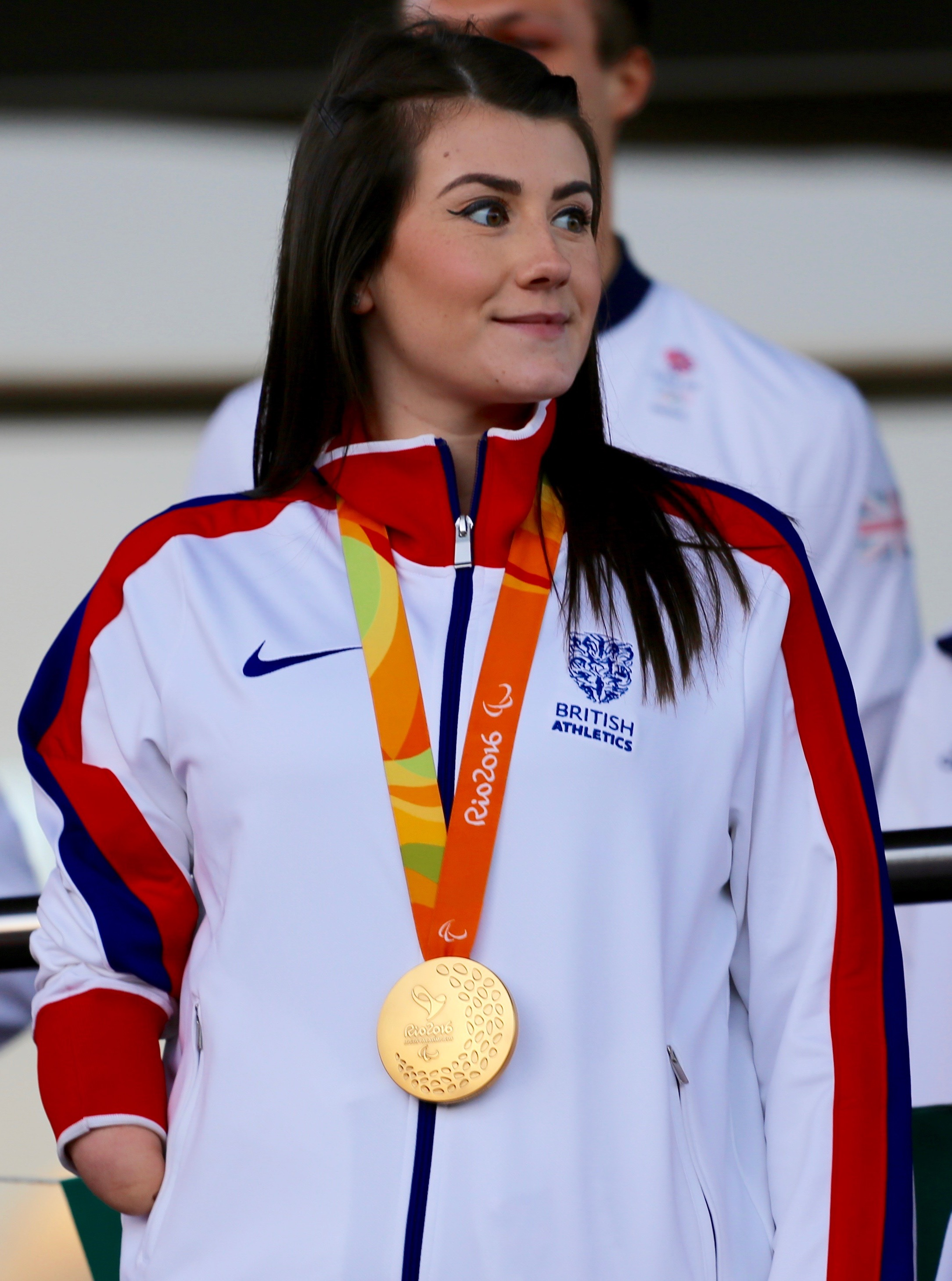 Hollie Arnold, a Welsh Paralympic javelin thrower, and Becky James, a Welsh Olympic cyclist at the Rio 2016 Homecoming Celebration for Welsh Olympians and Paralympians at the Senedd in Cardiff